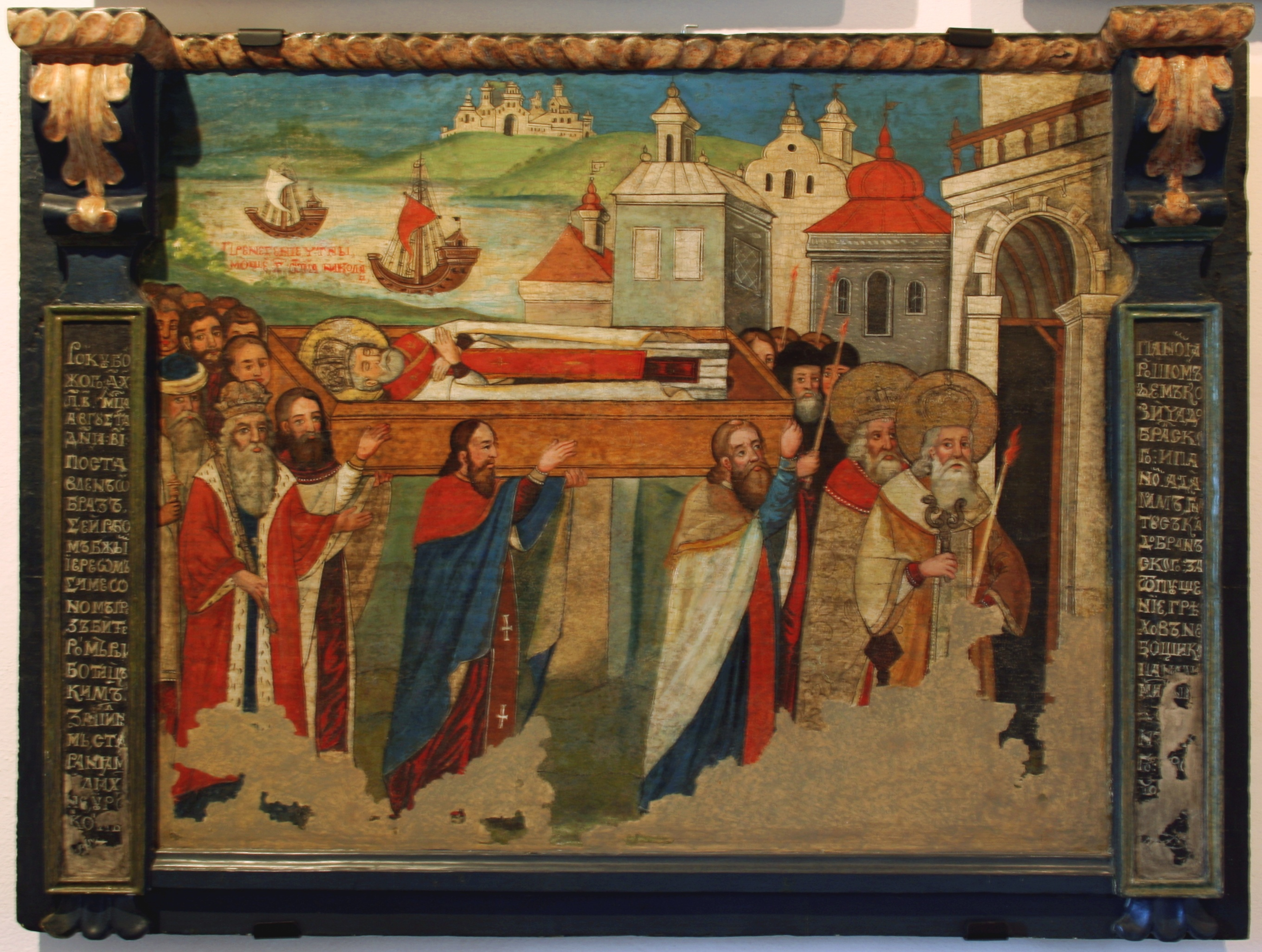 Saint Nicolas - an icon 17th cent., Historic Museum in Sanok, Poland